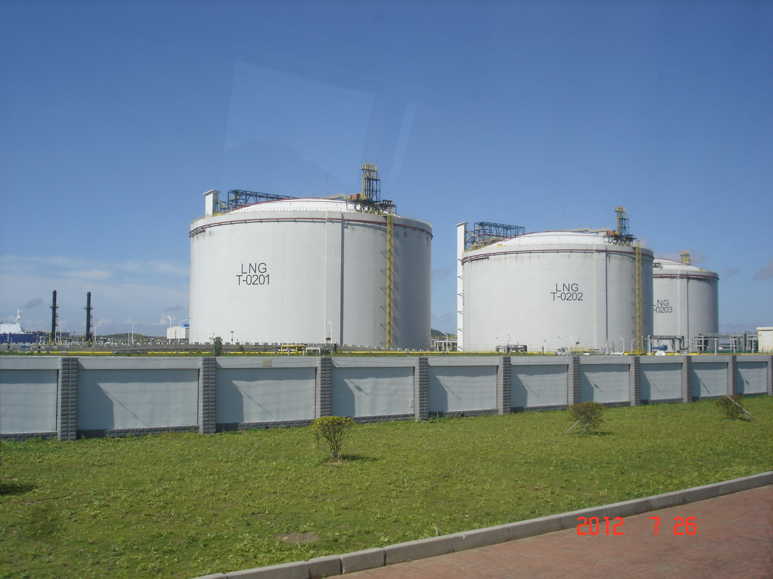 LNG storage in Yangshan Deepwater Port